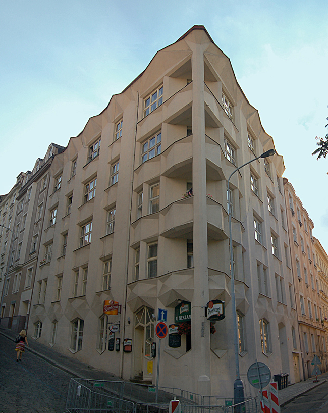 Apartment building in Neklanova street in Prague; architect Josef Chochol Česky: Činžovní dům v Neklanově ulici v Praze; architekt Josef Chochol